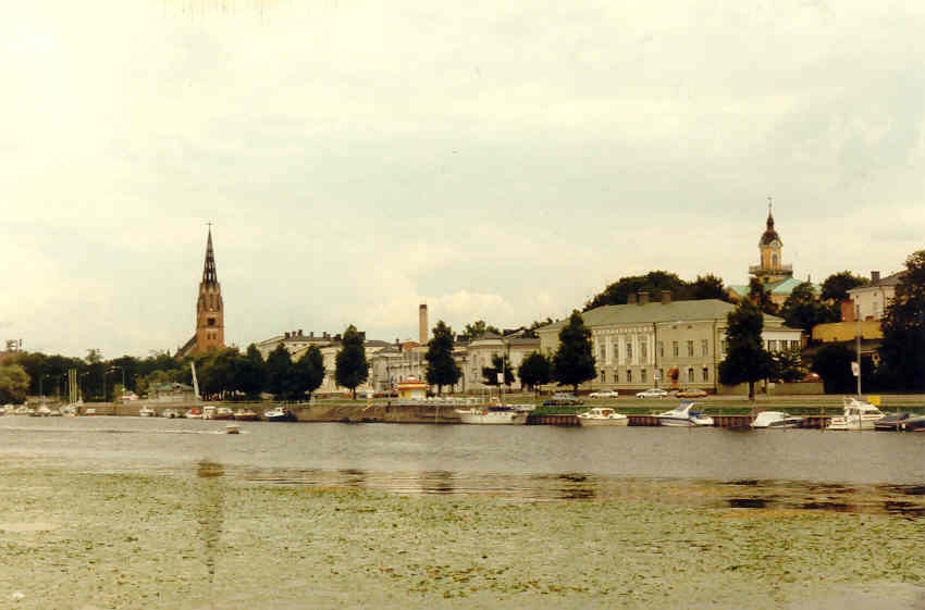 Pori, the river Kokemäki and the central cityThis picture have wrong name for the river, shall be Kokemäenjoki.